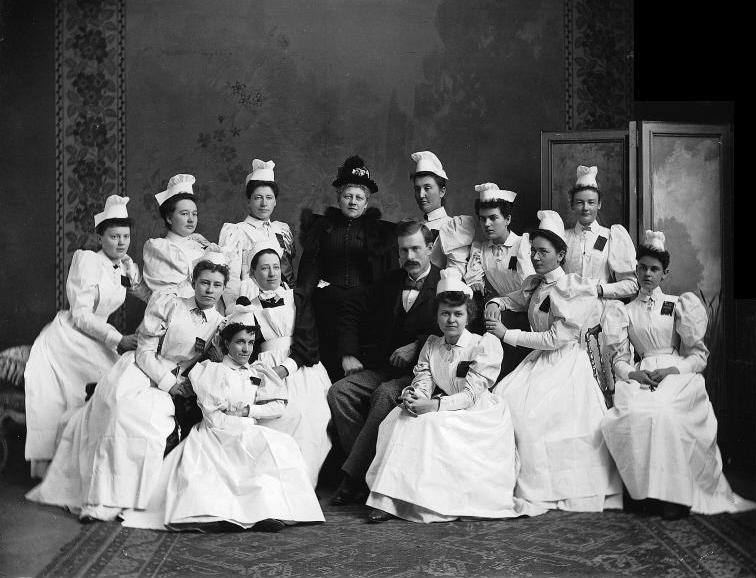 Photograph, Nurses of the General Hospital, Montreal, QC, 1894, Wm. Notman & Son. Silver salts on glass - Gelatin dry plate process - 20 x 25 cm